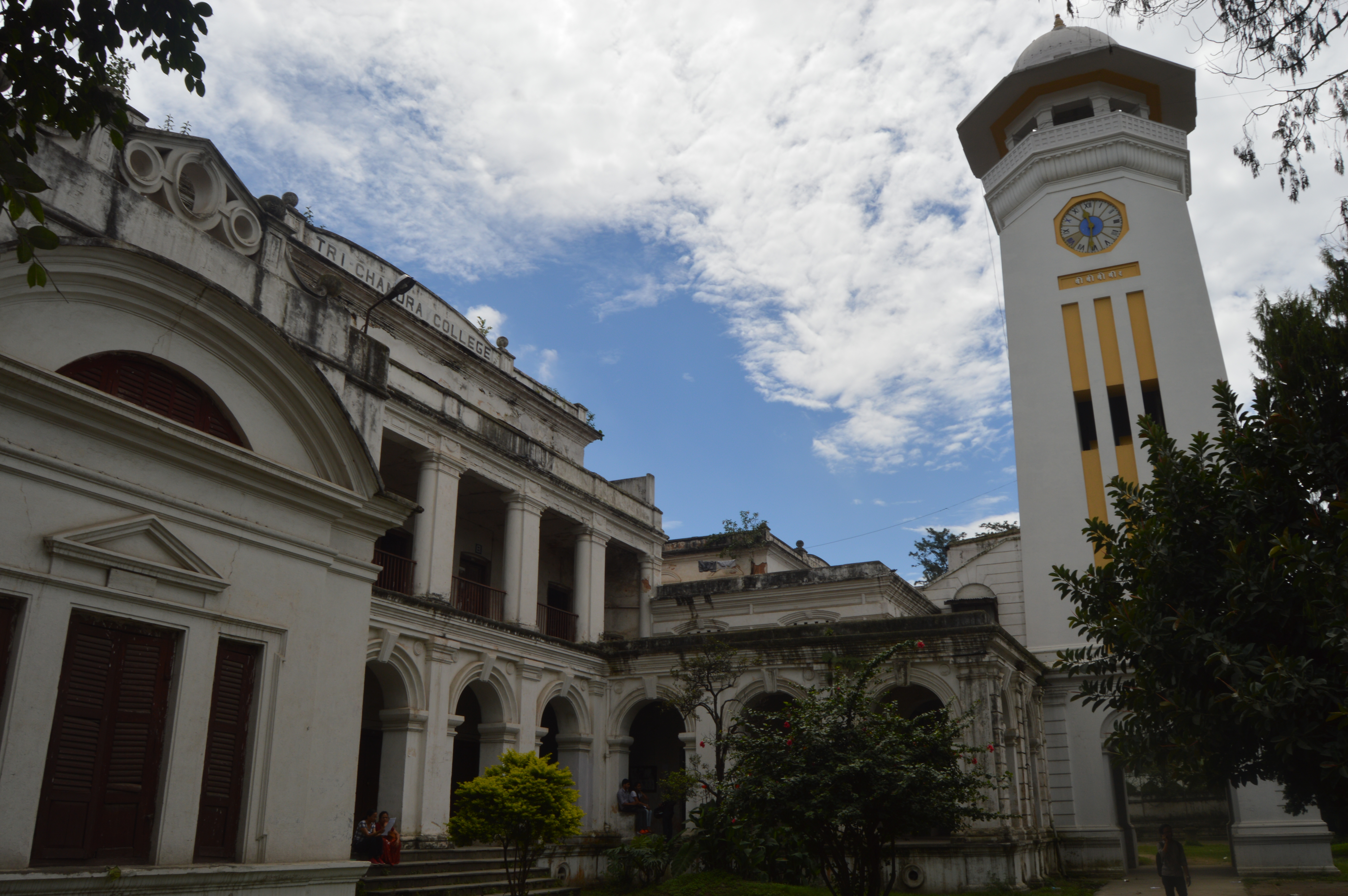 Tri-chandra Multiple campus was established in 1916 A.D.(1975 B.S.) by Rana Prime Minister Chandra Shamsher jang Bahadur Rana.